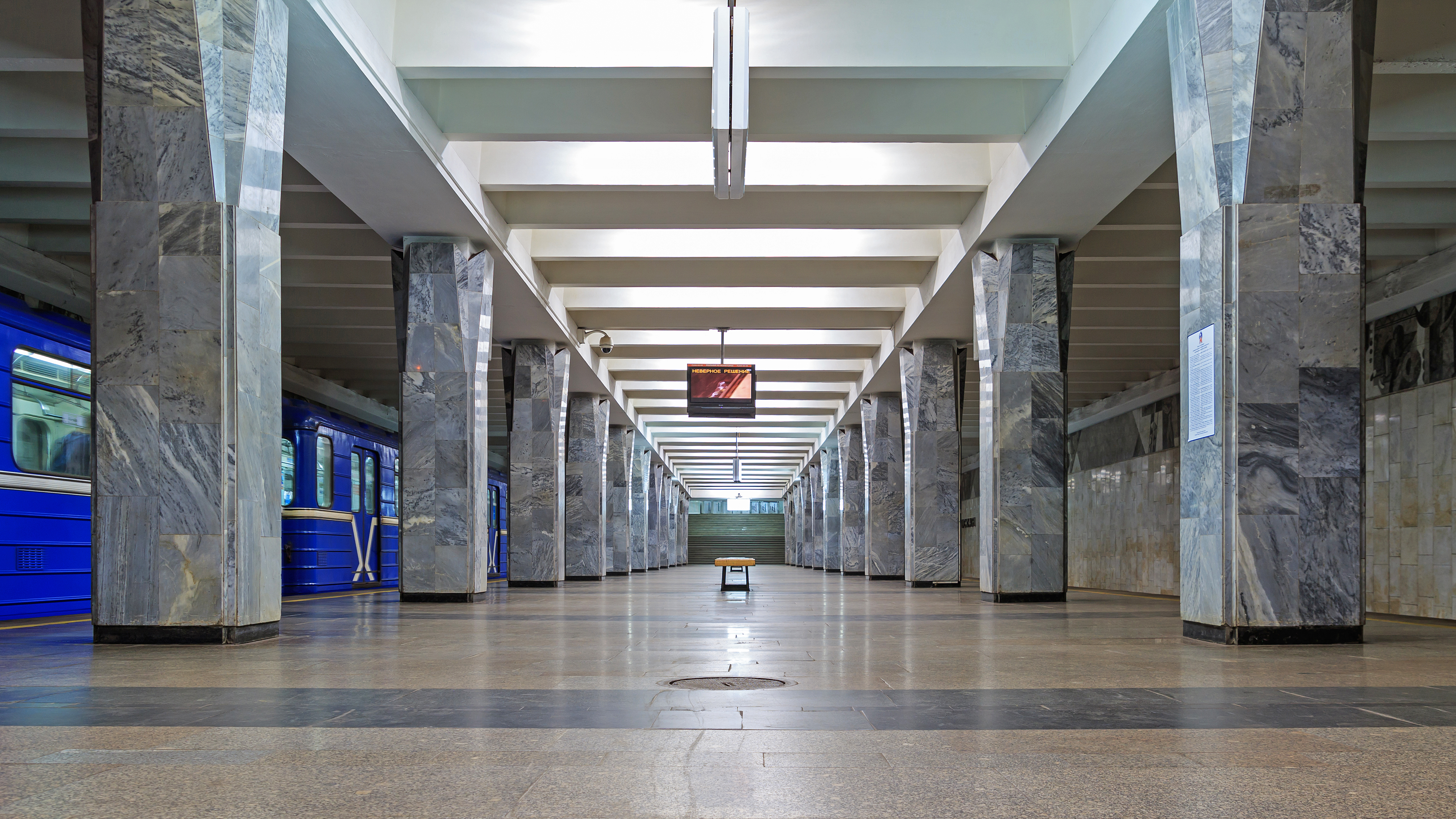 Avtozavodskaya metro station in Nizhny Novgorod, Russia.